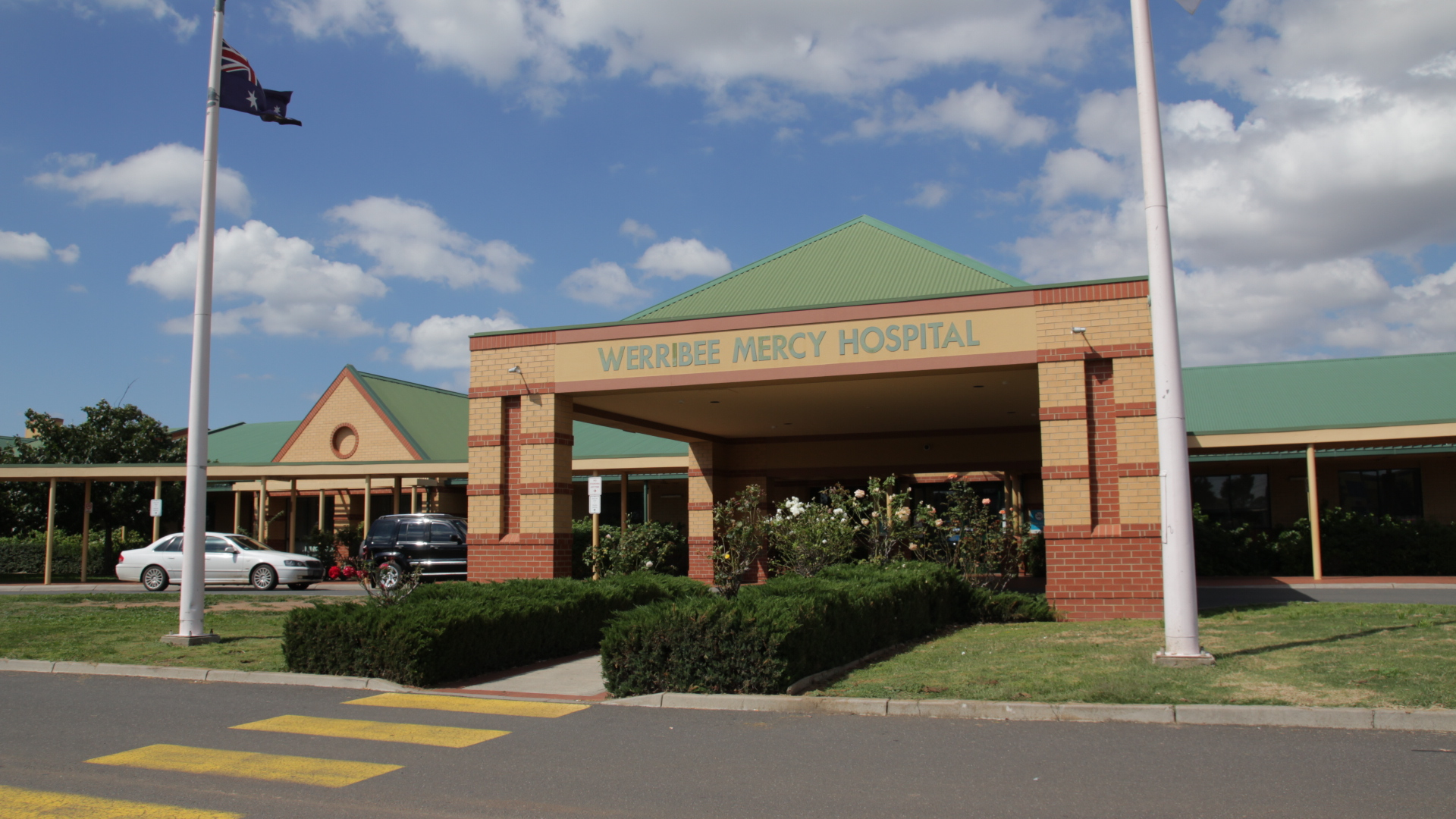 iPostcodes | About | Blog | Twitter | Facebook | Flickr | Unique Suburbs| Disclaimer Werribee Mercy Hospital Located At: 300 Princes Highway, Werribee, Victoria About This Photo: The Mercy Hospital at Werribee provides a broad range of services which include surgical, maternity, dialysis, emergency, mental health, aged and palliative care. Source: Werribee Mercy Hospital Retrieved March 8 2011 Google Maps .au/maps?hl=en&tab=wl Retrieved March 8 2011 Photo Taken: During iPostcodes's Unique Suburbs filming of Hoppers Crossing, Victoria, Australia About iPostcodes iPostcodes is an Australian real estate portal offering free listings to all property owners and real estate agents and a whole lot more. Unique Suburbs Check out Unique Suburbs where we did a full Suburb Profile of "Hoppers Crossing, Victoria Australia" on video.